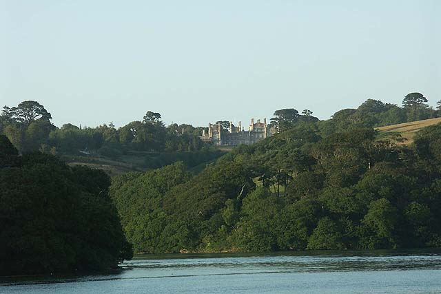 Tregothnan House and Deer Park